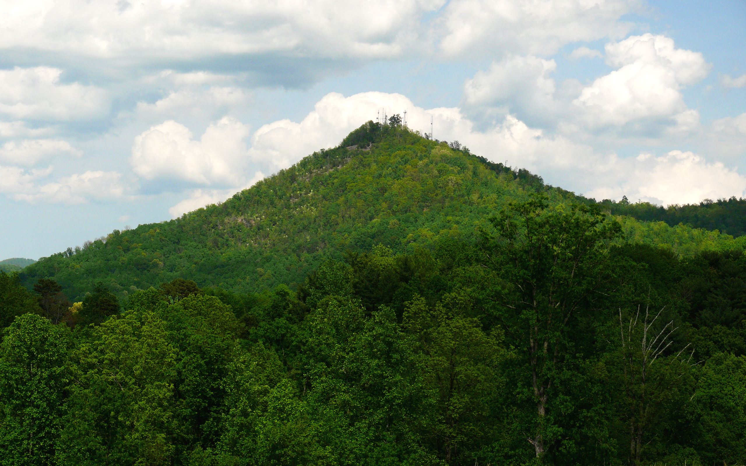 Hibriten Mountain is the final southwestern peak in the Brushy Mountain range. Its distinctive profile is a prominent feature of the local skyline, and it is well known in the area for a large star of electric lights that shines from near the summit during the Christmas season, and a cross that shines for a few weeks before and after Easter. Crowned with a nest of communications towers, Hibriten Mountain is located entirely within the city limits of Lenoir. Photo taken with a Panasonic Lumix DMC-FZ50 in Caldwell County, NC, USA.